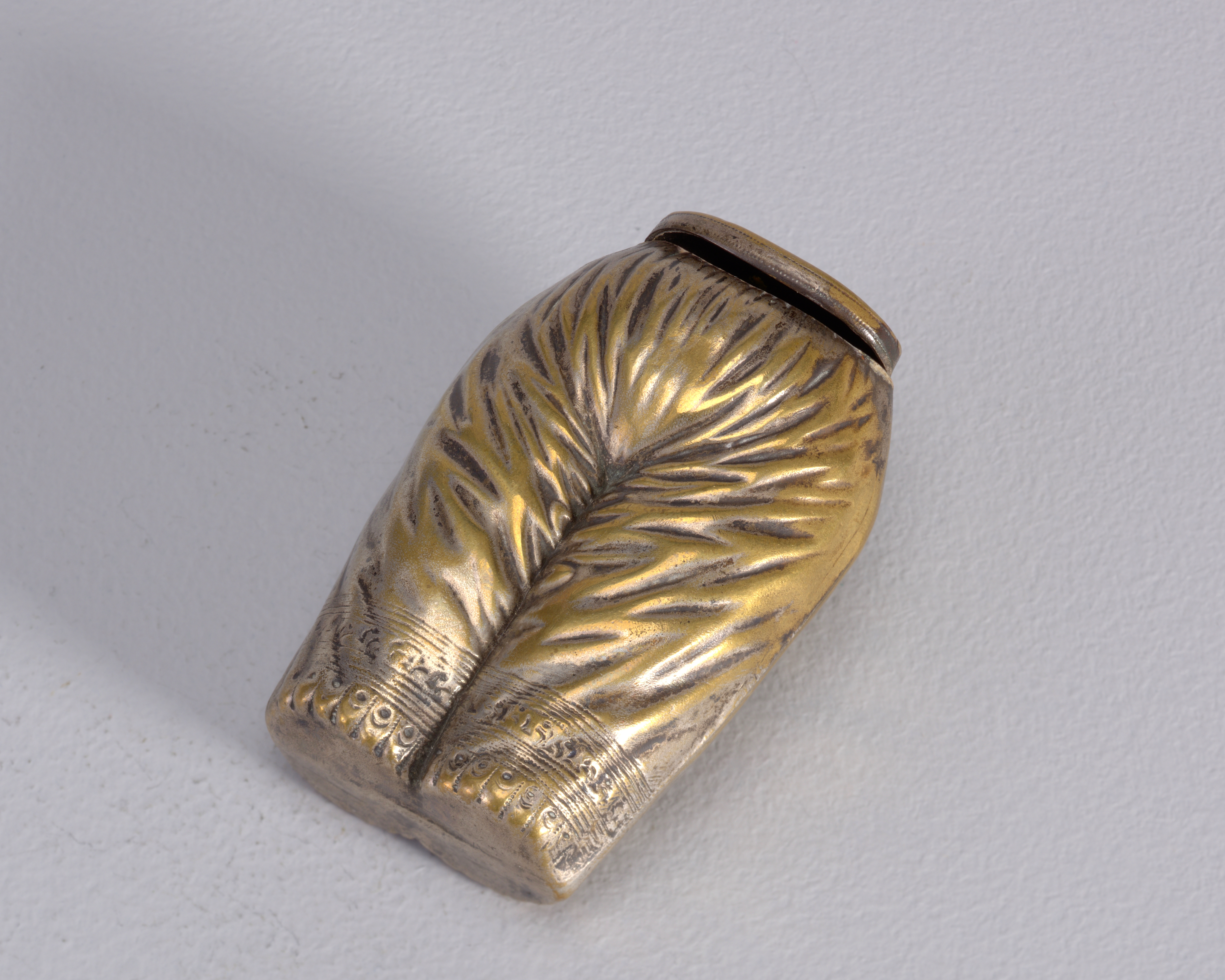 In the form of a pair of women's bloomers, featuring simulated creases and lace cuffs. Lid on top. Striker on lid.